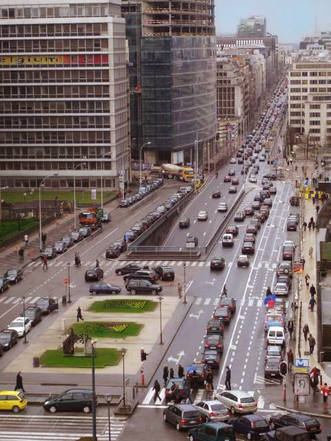 Wetstraat / Rue de la Loi (Brussels) (westerly perspective).